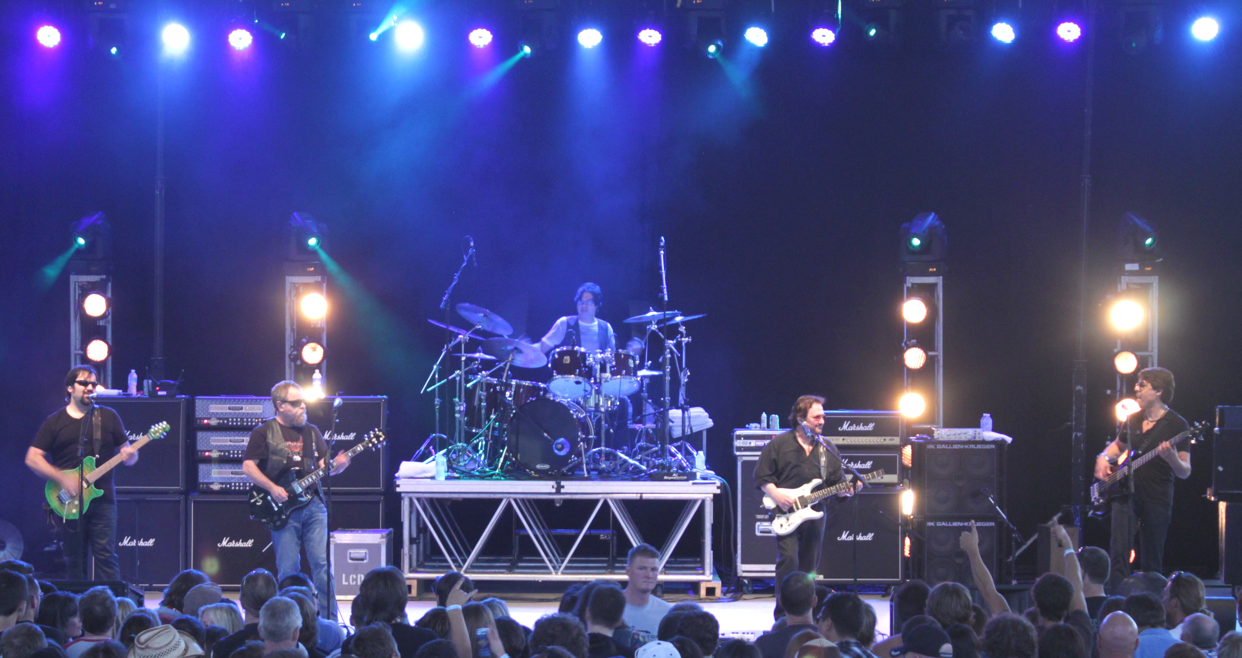 Blue Öyster Cult in Edmonton, August 2012. (cropped version)